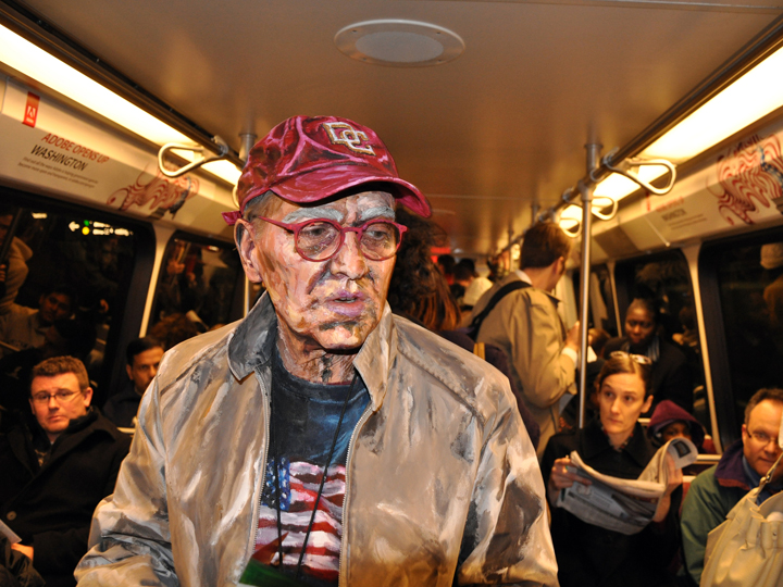 Performance on DC Metro.